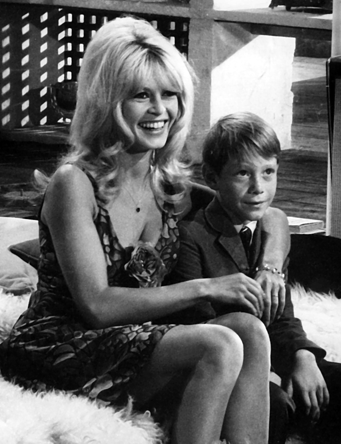 Publicity photo of Brigitte Bardot and Billy Mumy on set of Dear Brigitte (1965).